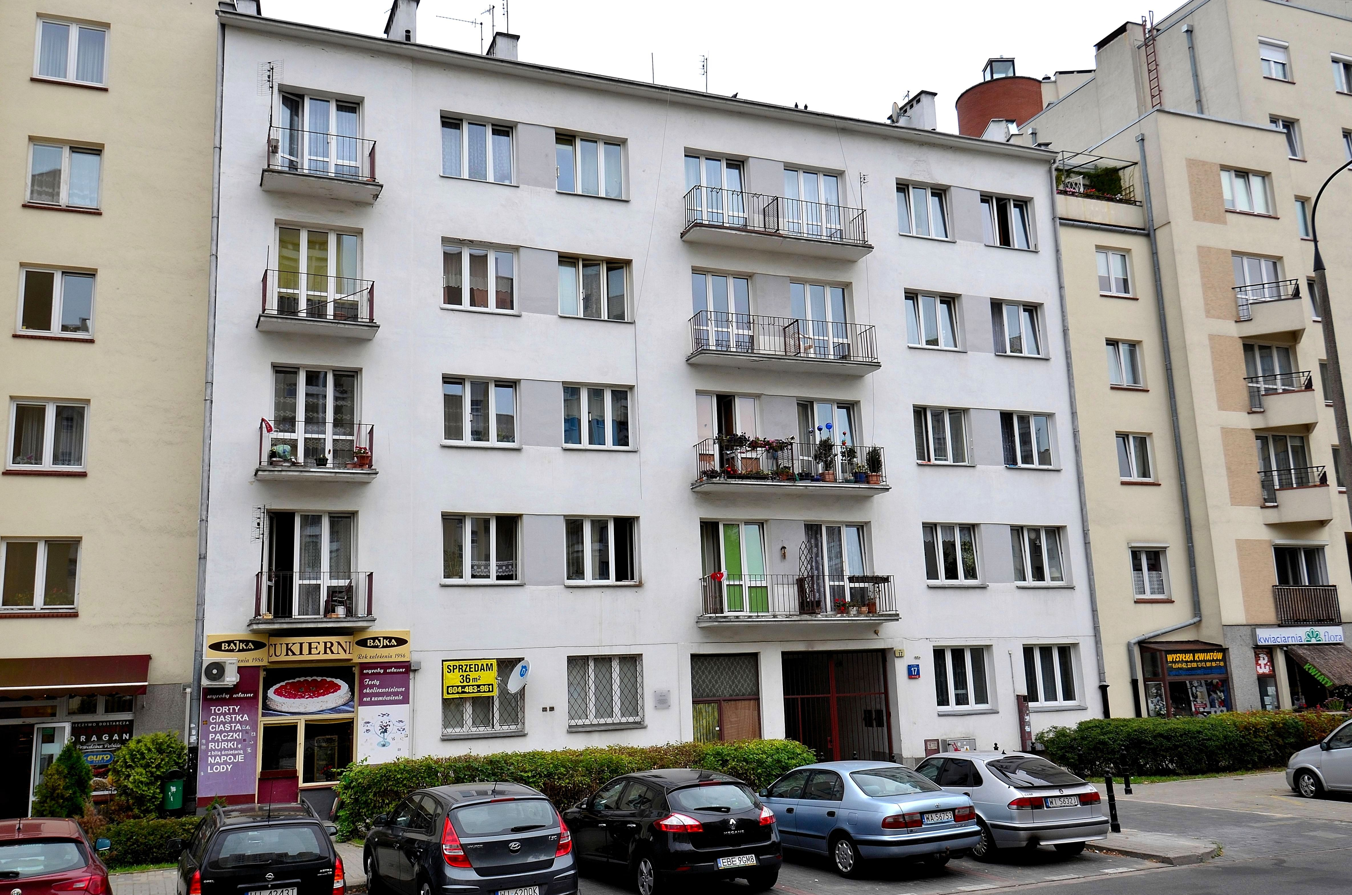 Goldbands Tenement house at 17 Dzika Street in Warsaw